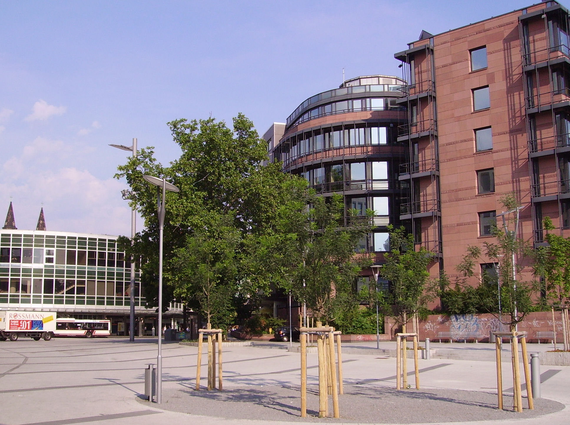 building in Ludwigshafen, Germany